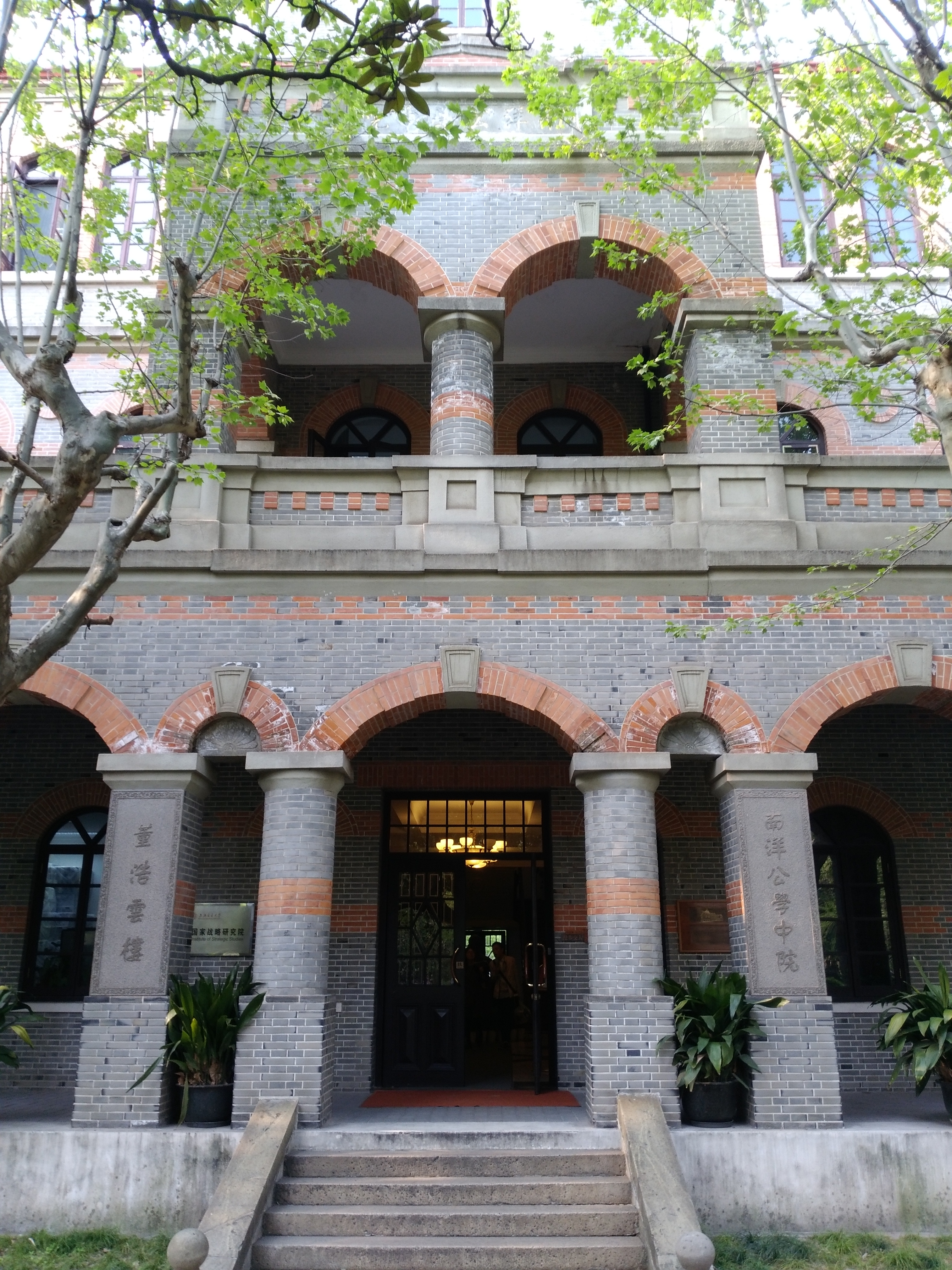 Dong Haoyun building